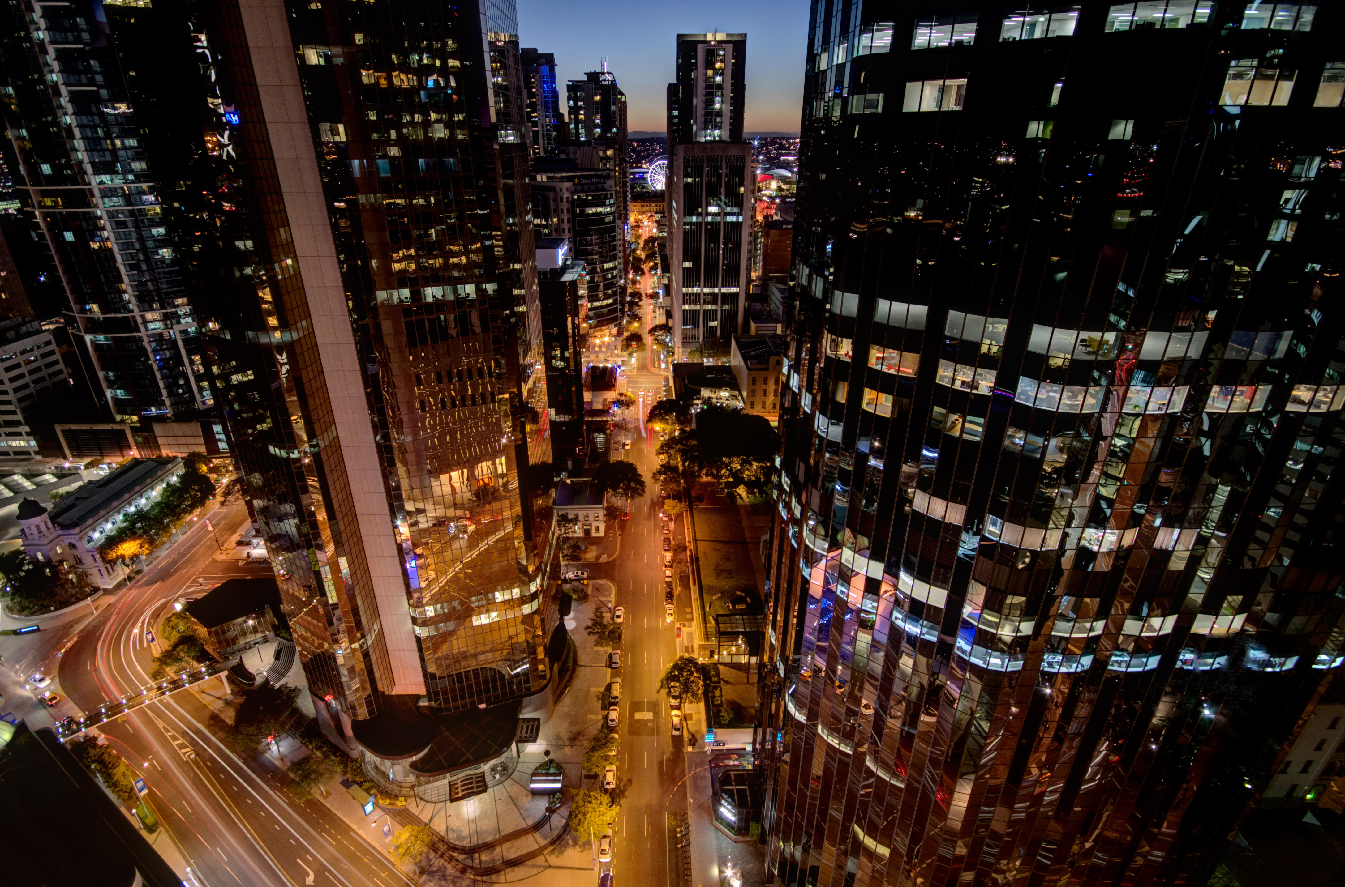 Brisbane is the capital and most populous city in the Australian state of Queensland, and the third most populous city in Australia. Brisbane's metropolitan area has a population of 2.2 million, and the South East Queensland urban conurbation, centred on Brisbane, encompasses a population of more than 3 million. The Brisbane central business district stands on the original European settlement and is situated inside a bend of the Brisbane River, approximately 23 kilometres (14 miles) from its mouth at Moreton Bay. The metropolitan area extends in all directions along the floodplain of the Brisbane River valley between the bay and the Great Dividing Range. While the metropolitan area is governed by several municipalities, a large portion of central Brisbane is governed by the Brisbane City Council, which is by far Australia's largest Local Government Area by population. The demonym of Brisbane is Brisbanite. Brisbane is named after the river on which it sits, which in turn was named after Scotsman Sir Thomas Brisbane, the Governor of New South Wales from 1821 to 1825.